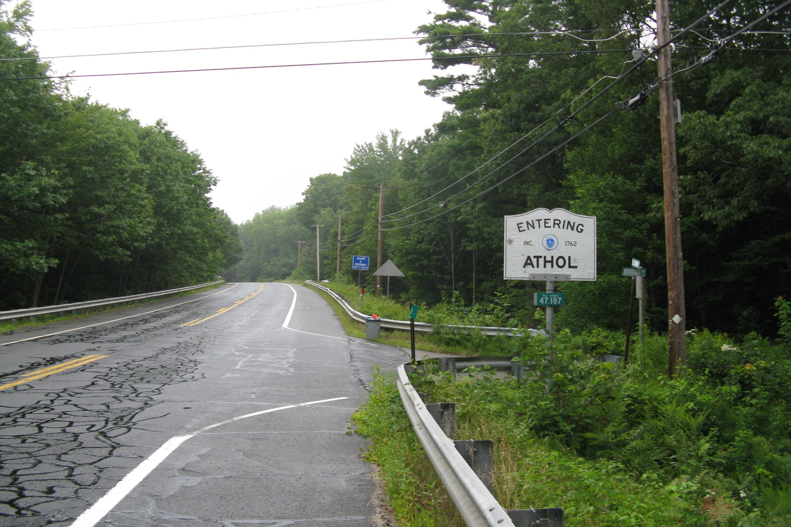 New England Route 32 northbound entering Athol Massachusetts